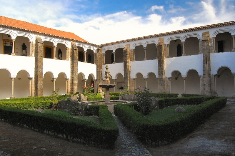 Portalegre_Municipality The file name is not correct. Is Correct Mosteiro de São Bernardo